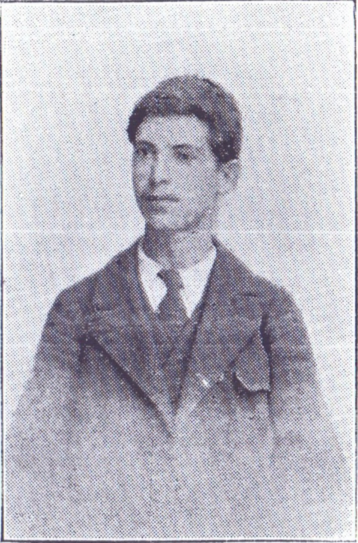 Stefan_Strahinov from Buntovnik 1903